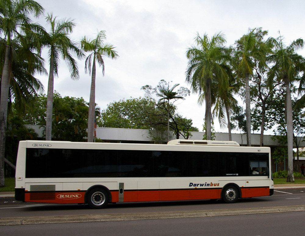 Volgren "CR228L" bodied Mercedes-Benz OC500LE operated by Buslink for Darwinbus (Built 2005, Fleet #: 167 Rego #: mo 2756).